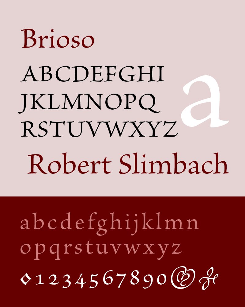 Sample of the Brioso typeface (roman) designed by Robert Slimbach.